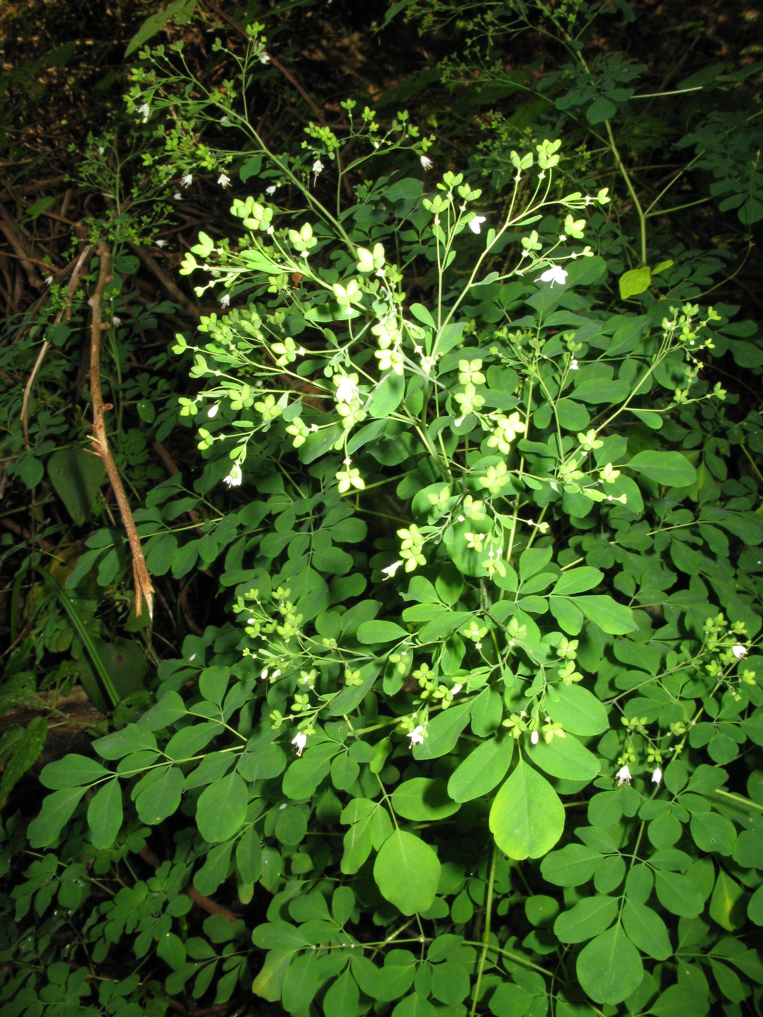 Boenninghausenia albiflora var. japonica, Aizu area, Fukushima pref., Japan